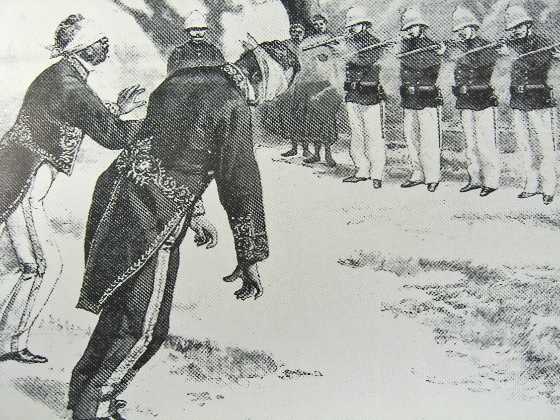 Execution of Prince Ratsimamanga and the Minister of the Interior under order of General Galliéni for having resisted France's annexation of Madagascar. Picture published in the French magazine L'Illustration, November 22, 1896.